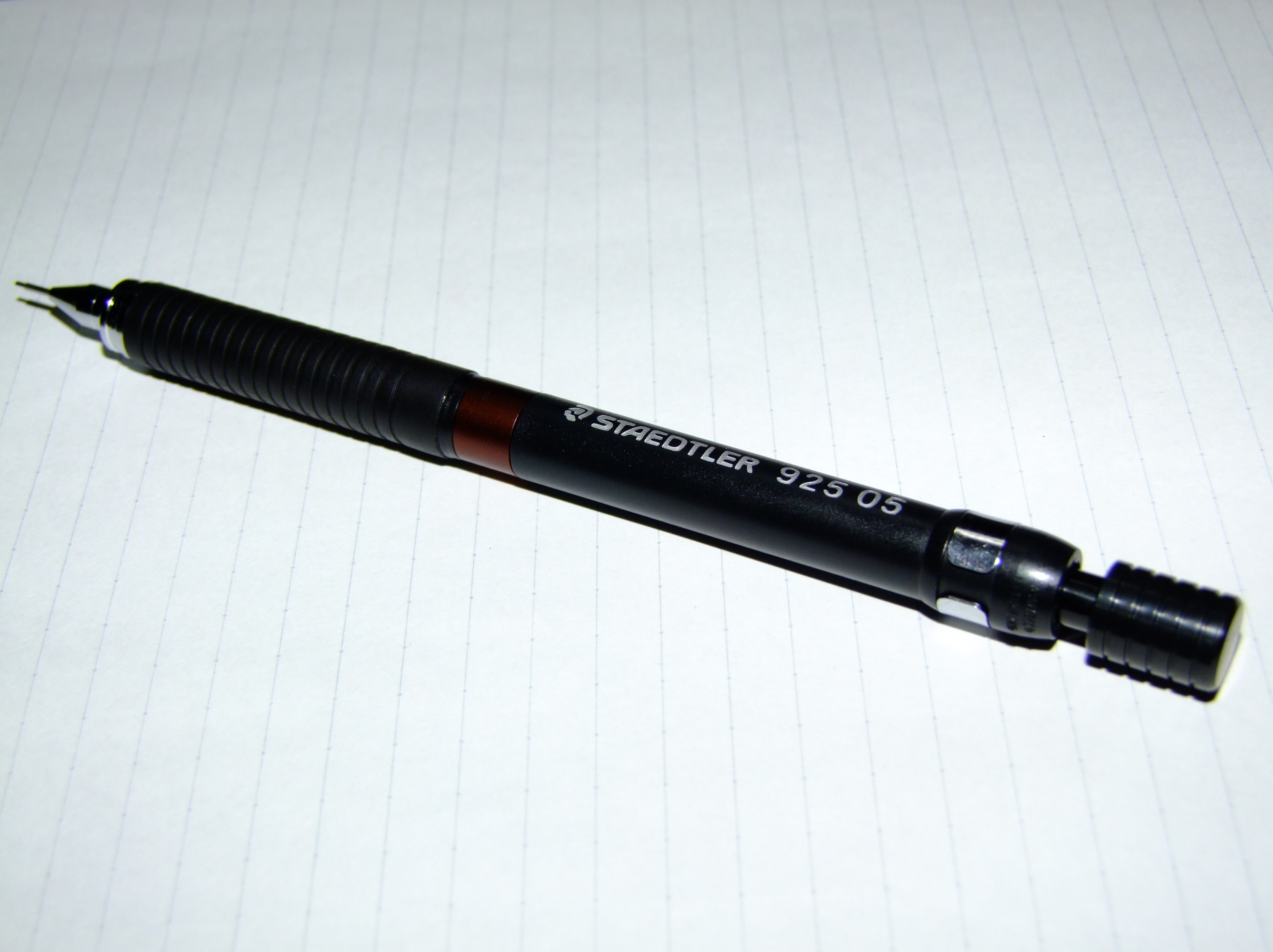 Mechanical Pencil 925 05 by STAEDTLER